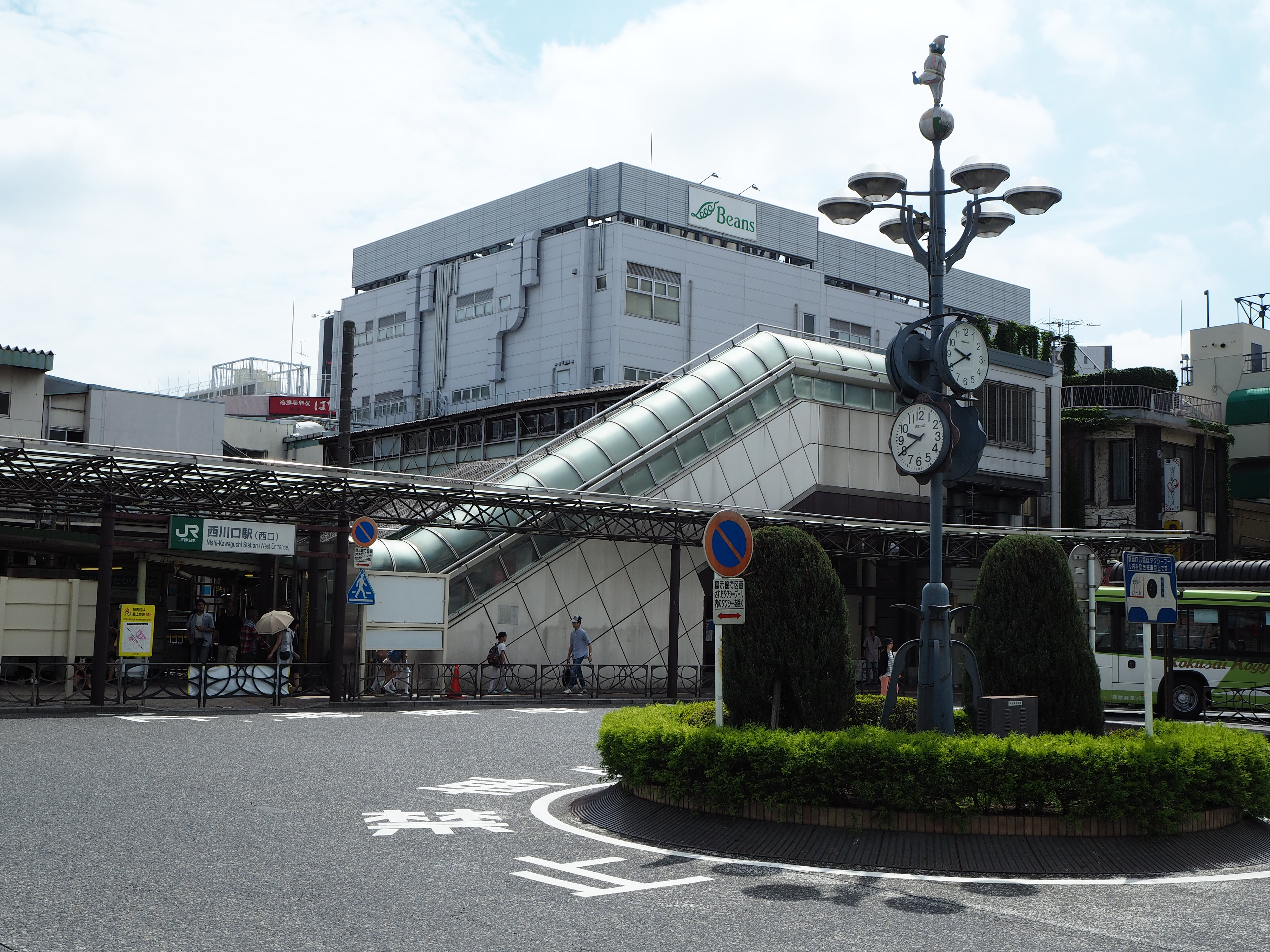 West entrance of Nishi-Kawaguchi Station